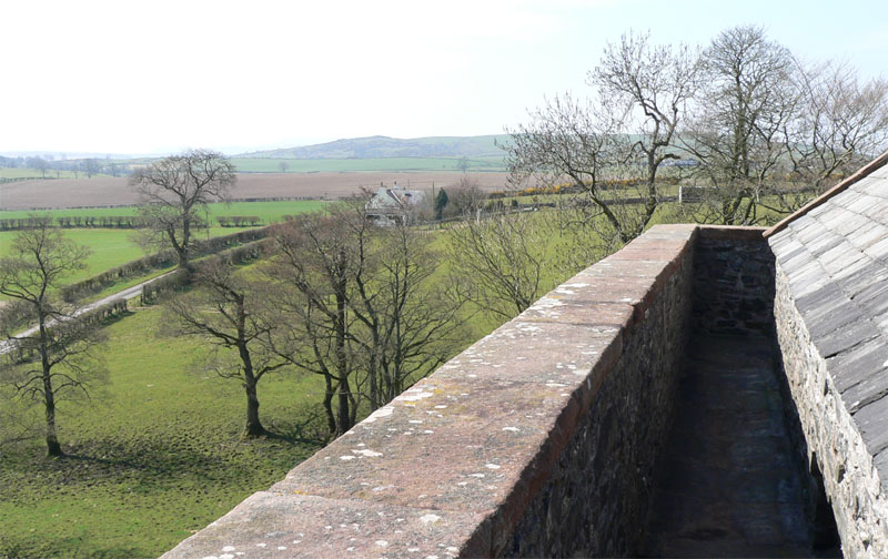 Drumcoltran Tower, Dumfries and Galloway, Scotland - parapet